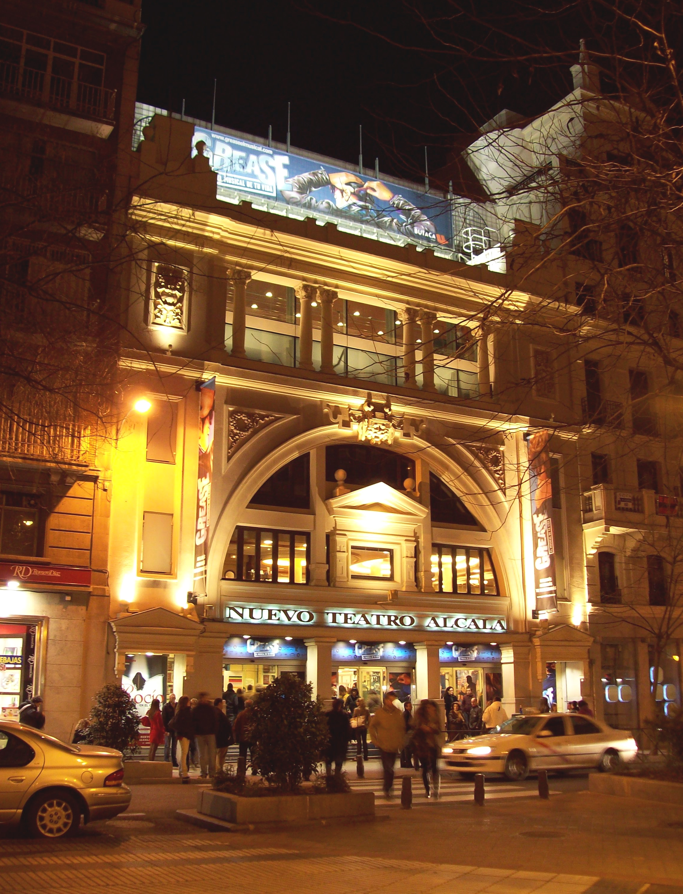 Night view of the façade of Nuevo Teatro Alcalá (a theater), at 90 Calle de Alcalá (street) in Salamanca district in Madrid (Spain). Building was projected in 1922 by architect Luis Ferrero Tomás and built from 1923 to 1924.